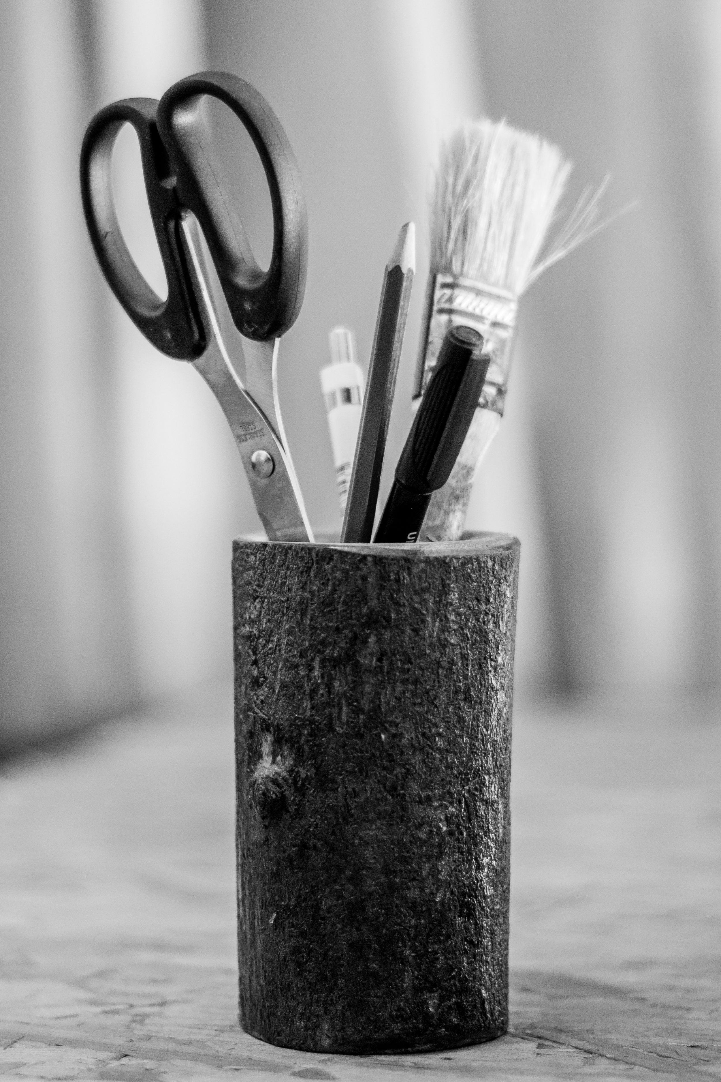 Pen Holder